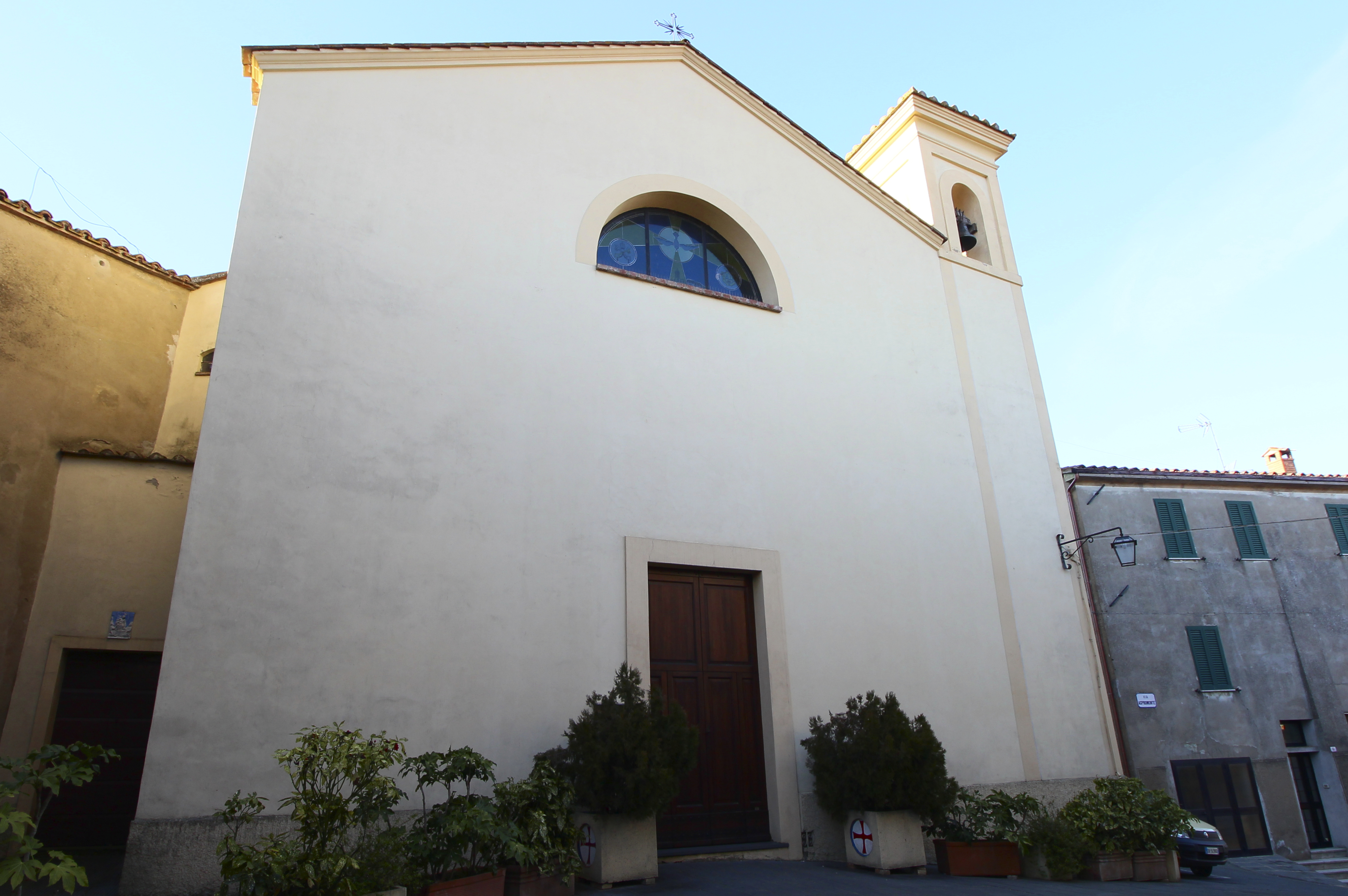 Church San Silvestro Papa, Piegaro, Province of Perugia, Umbria, Italy